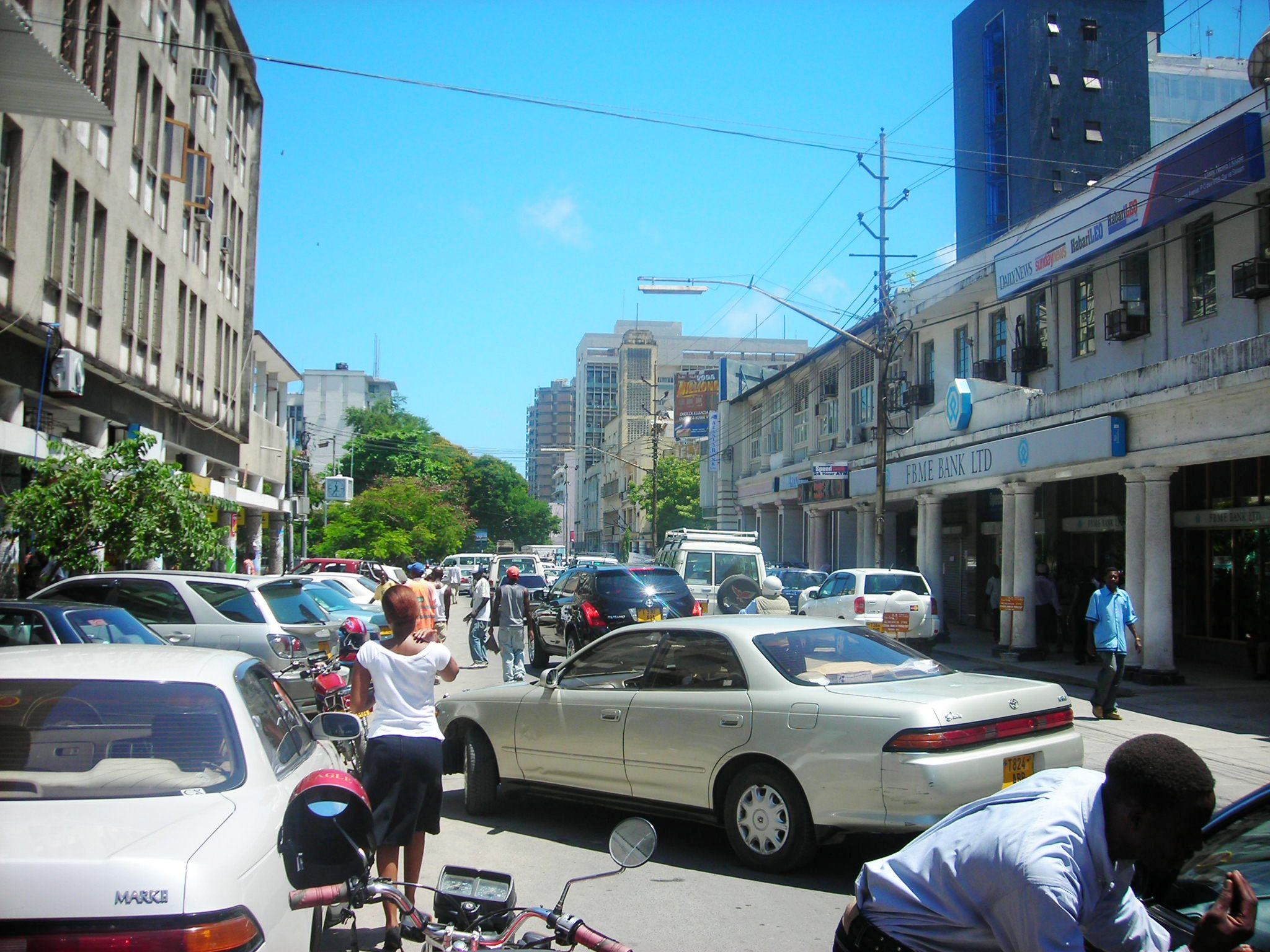 this is a picture taken recently May 2007 of the main street in the central business district of Dar city